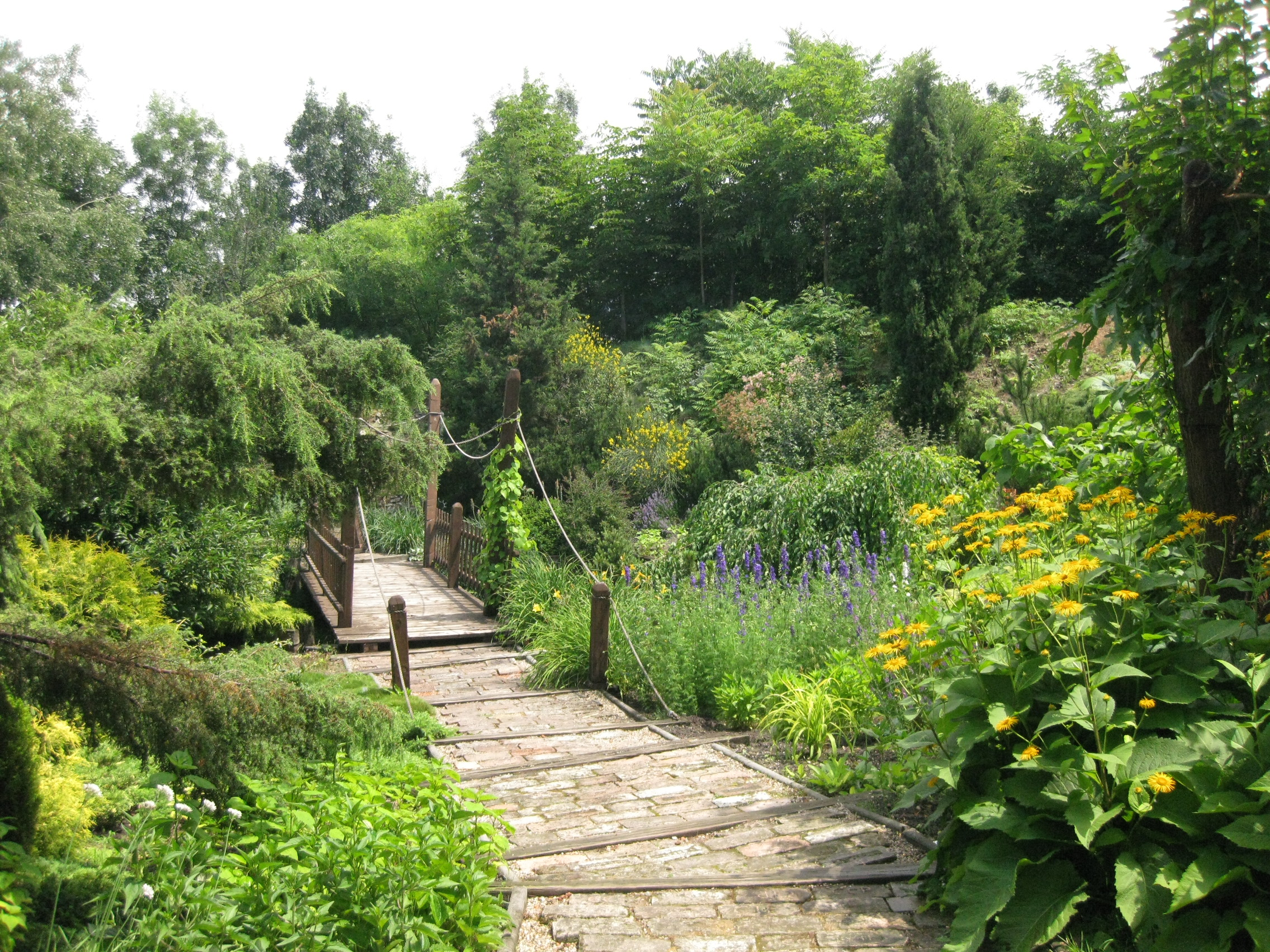 Botanicá Záhrada in Bratsilava